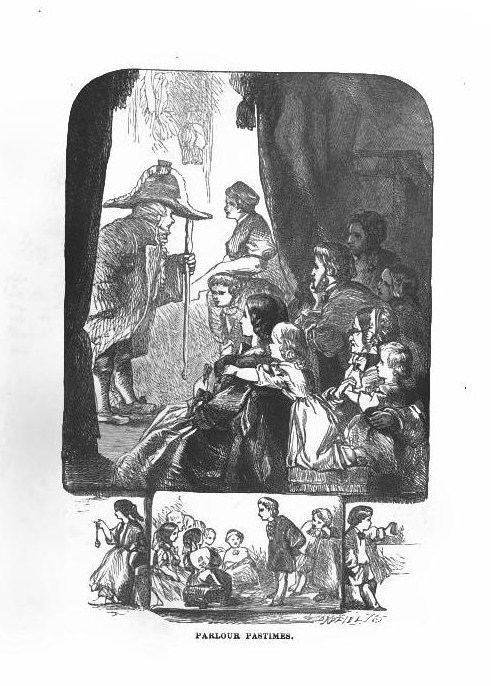 Frontispiece from Parlour pastimes: a repertoire (1868) by George Frederick Pardon: home theatricals.